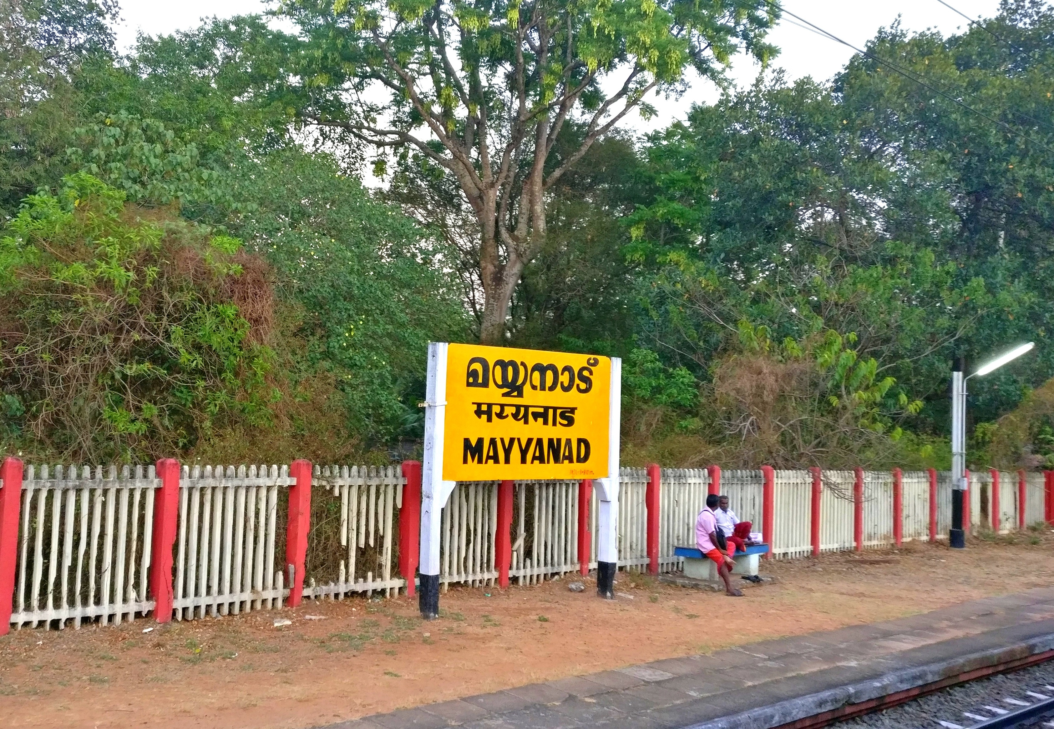 Mayyanad railway station - A railway station in between Iravipuram & Paravur railway stations.